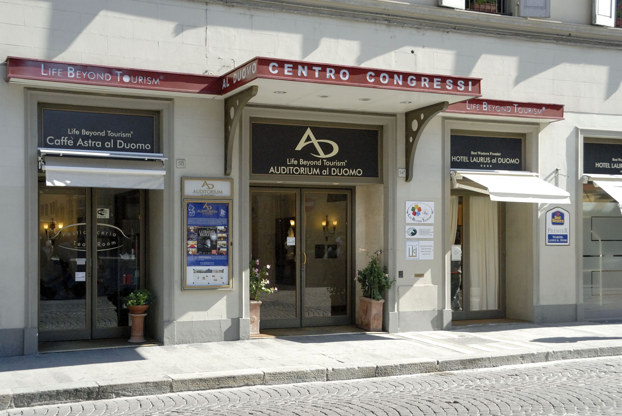 Main entrance of Auditorium al Duomo, Hotel Laurus and Caffè Astra